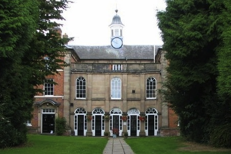 Big School, Adams' Grammar School, Newport, Shropshire